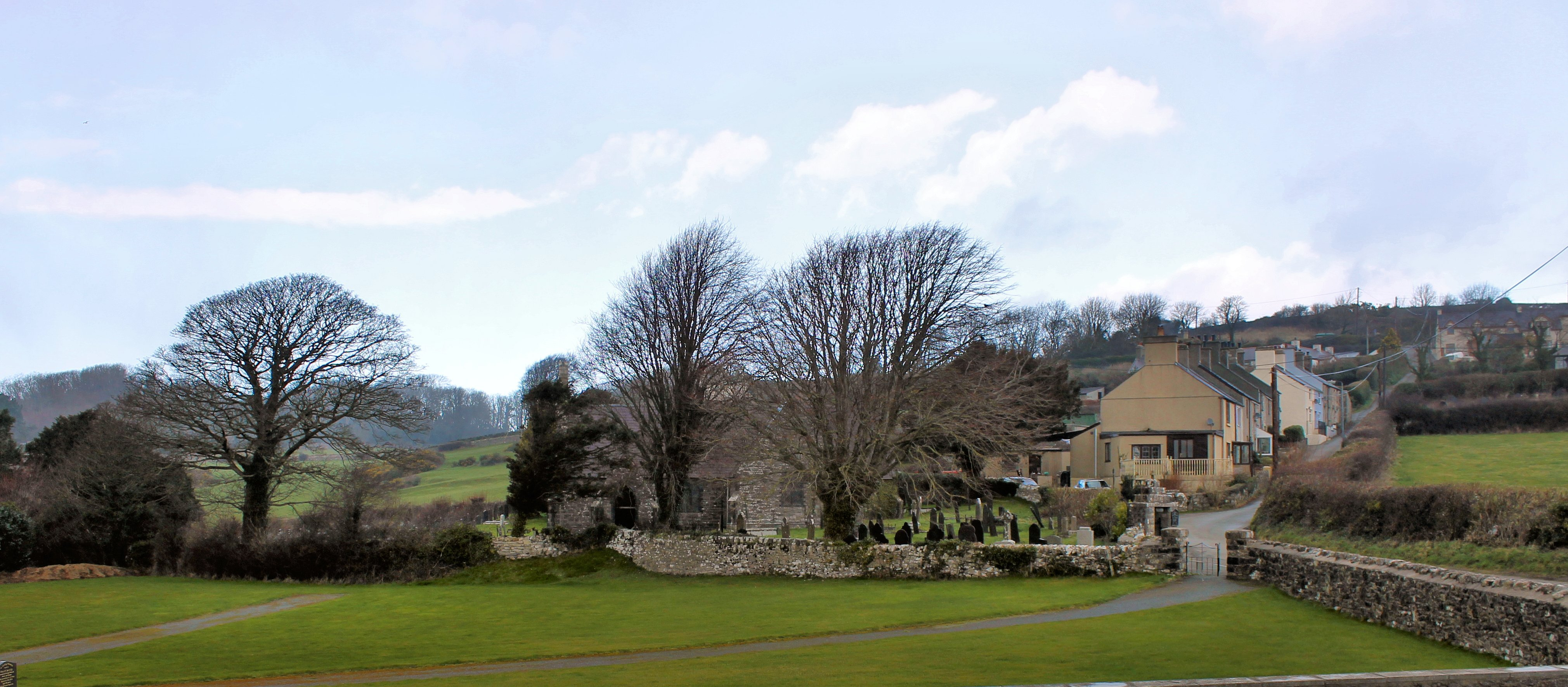 St Cawrdaf's Church, Llangoed, Ynys Môn (Anglesey), North Wales. Grade: II; Date Listed: 30 January 1968; Cadw Building ID: 5516.